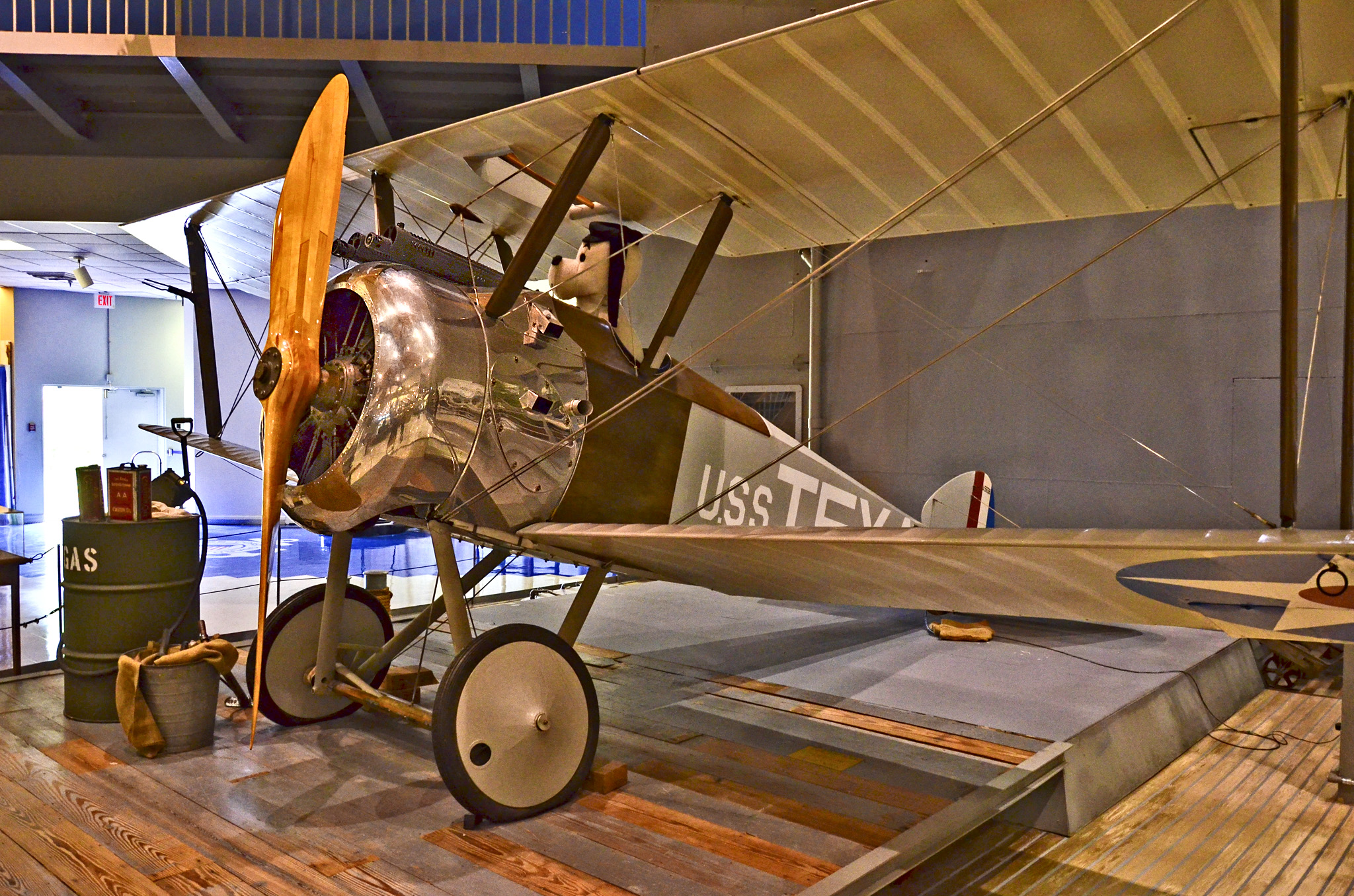 (Replica, using some original components) Painted in the markings of an aircraft flown from the battleship Texas (BB35) at Guantanamo Bay, Cuba in 1919. TDelCoro National Naval Aviation Museum May 10, 2013